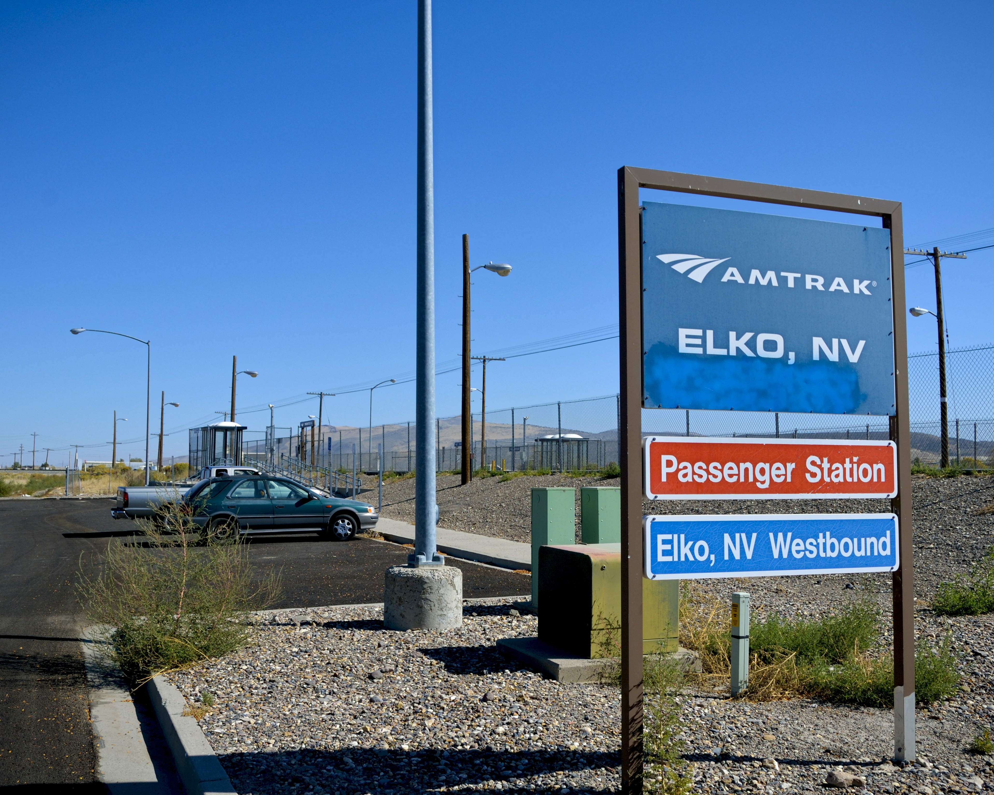 The station consists of a covered bench outside a locked gate, and the conductor has the key.